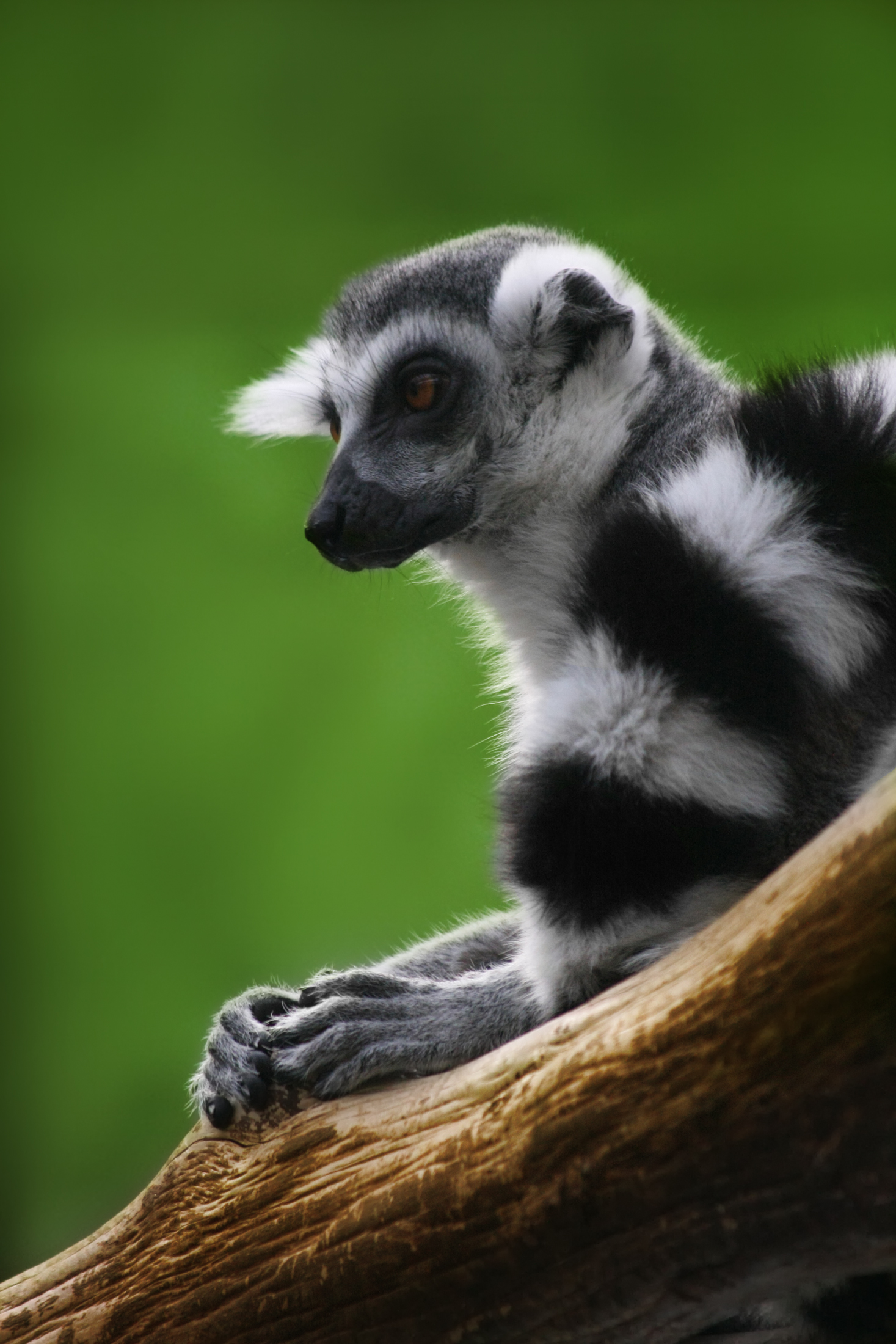 The Ring-tailed Lemur is a large prosimian, a lemur belonging to the family Lemuridae. Photographed in Münchner Tierpark Hellabrunn